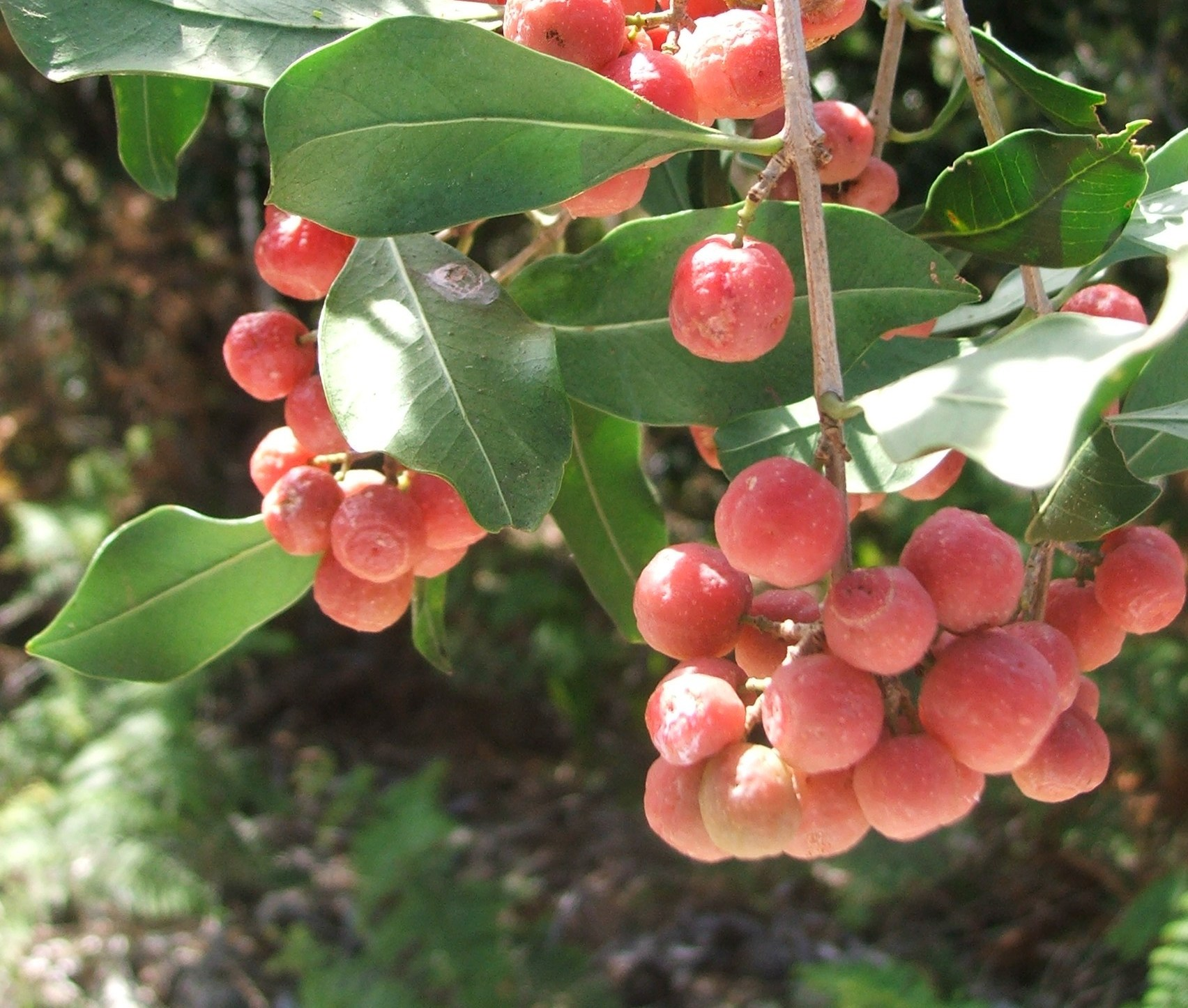 Olinia emarginata tree. South Africa.